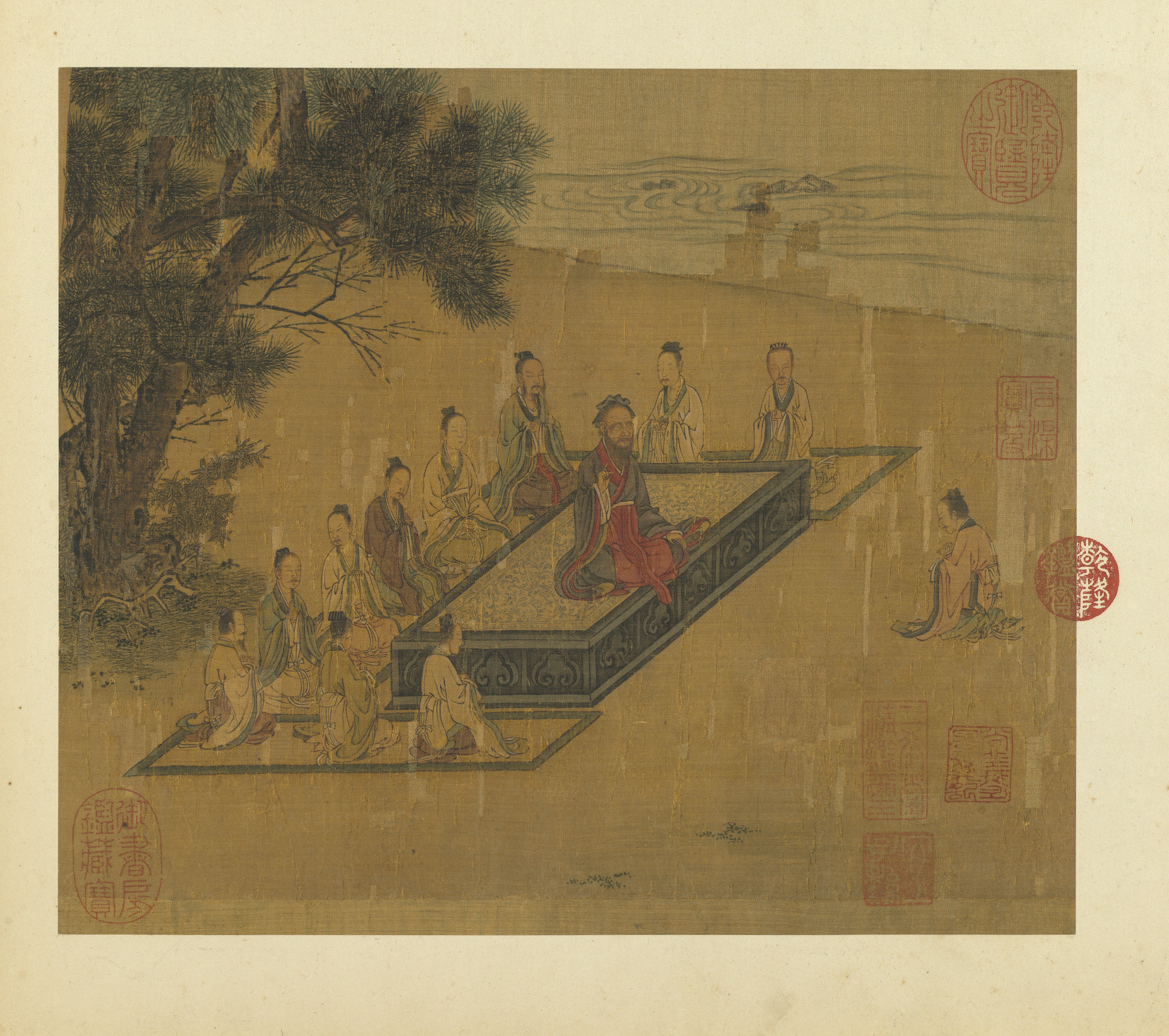 This painting depicts Confucius at his residence giving a lecture and Zengzi kneeling before him to ask about filial piety.